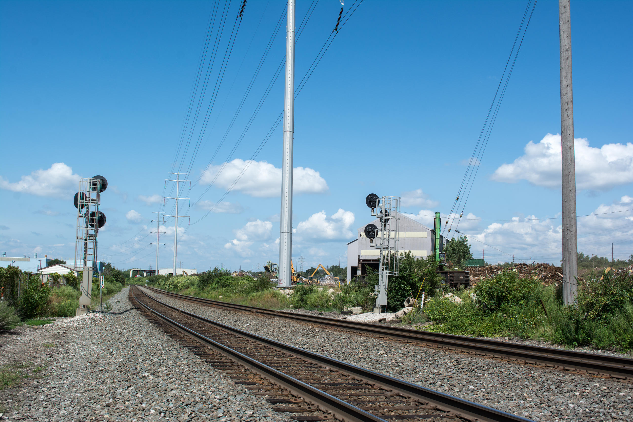 Looking north at the former Cleveland and Pittsburgh Railroad tracks at Jones Road in the Union-Miles Park neighborhood of Cleveland, Ohio, in the United States. The route was established and tracks first laid in 1852. The railroad was taken over by the Pennsylvania Railroad in 1871, which became the Penn Central in 1968. This part of the track became part of Conrail in 1976, and was sold to the Norfolk Southern in 1999.